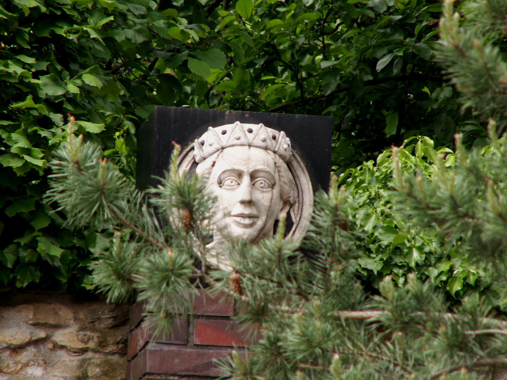 Sculptures in Bietigheim, Germany, Baden-Wuerttemberg, - Juergen Goertz (artist), Prof. Jo Frowein and Dieter Schaeffer (architects), “Gesamtkunstwerk” Villa Visconti, 2001 – 2003, half relief head of Antonia Visconti